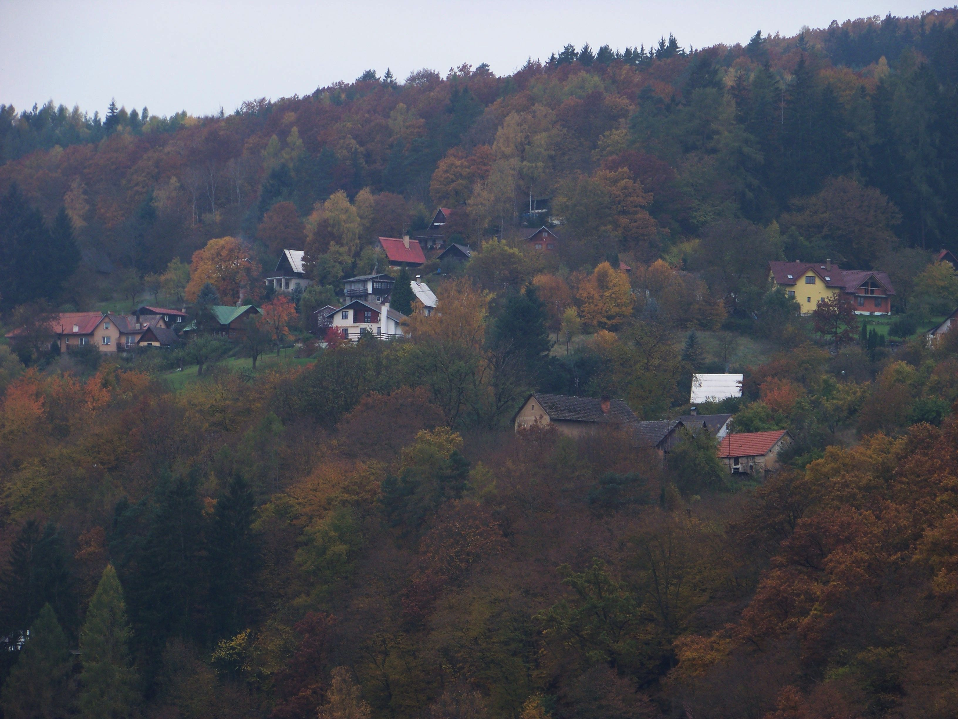 Štěchovice-Třebenice, Prague-West District, Central Bohemian Region, the Czech Republic. Seen from the trail along Štěchovice Reservoir. - OpenStreetMap(Info)